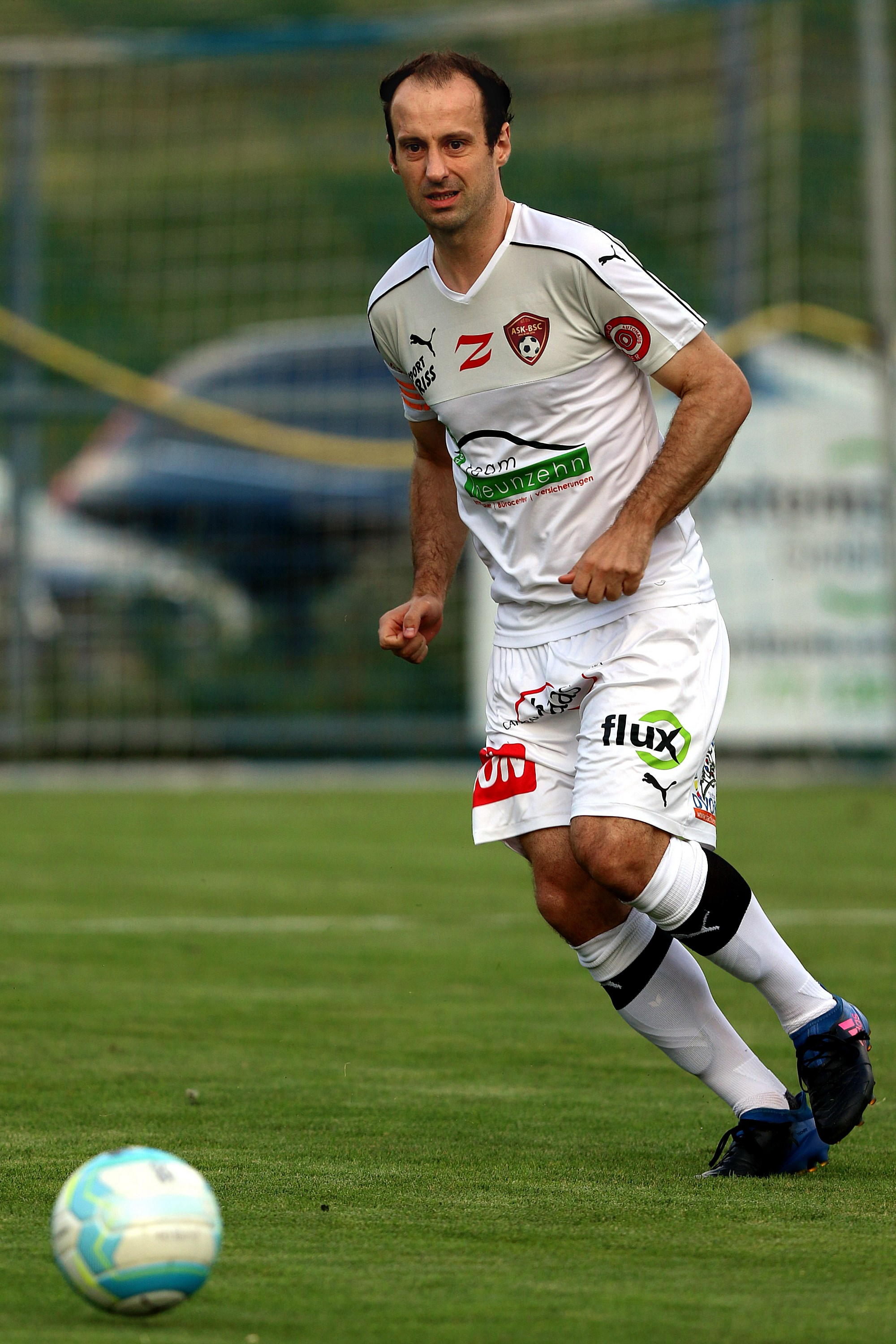 2017–18 Austrian Cup - SC Bad Sauerbrunn (blue-white shirts) vs. ASK-BSC Bruck an der Leitha (white shirts) 0-4. – The photo shows Vedran Jerkovic.